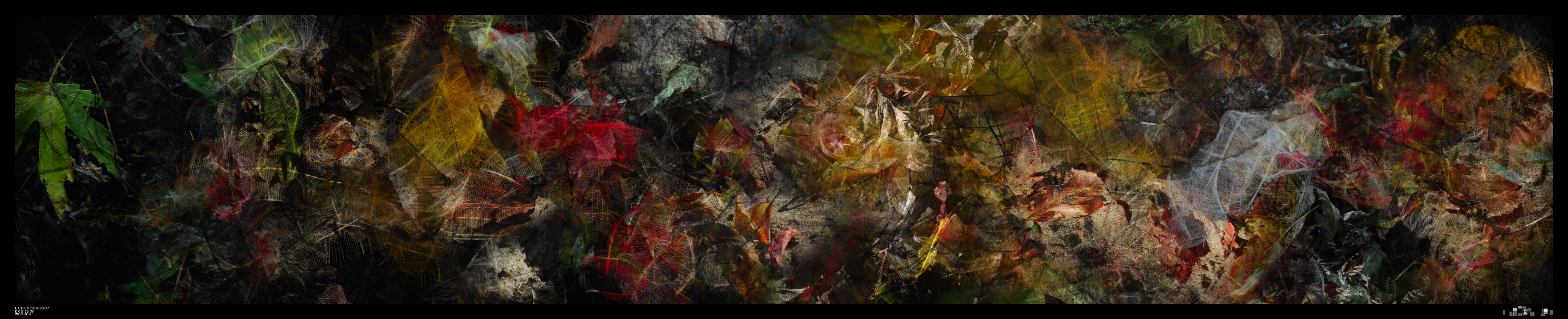 A frame from the Enhanced Protoquadro generative painting called Aut-Aut in a experimental version were the canvas is made by 4 screen. No two frames are equal. And this frame cannot be replicated by the machine therefore is unique.